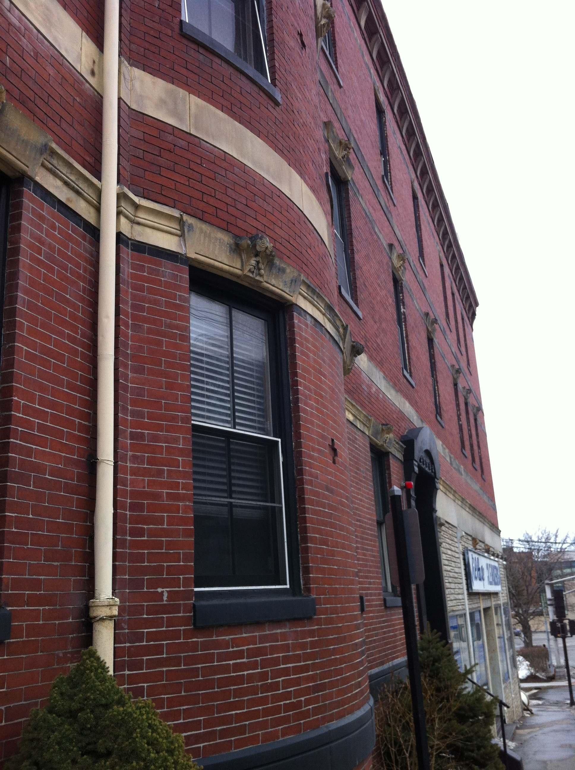 Hotel Adelaide in Pill Hill area of Brookline, MA